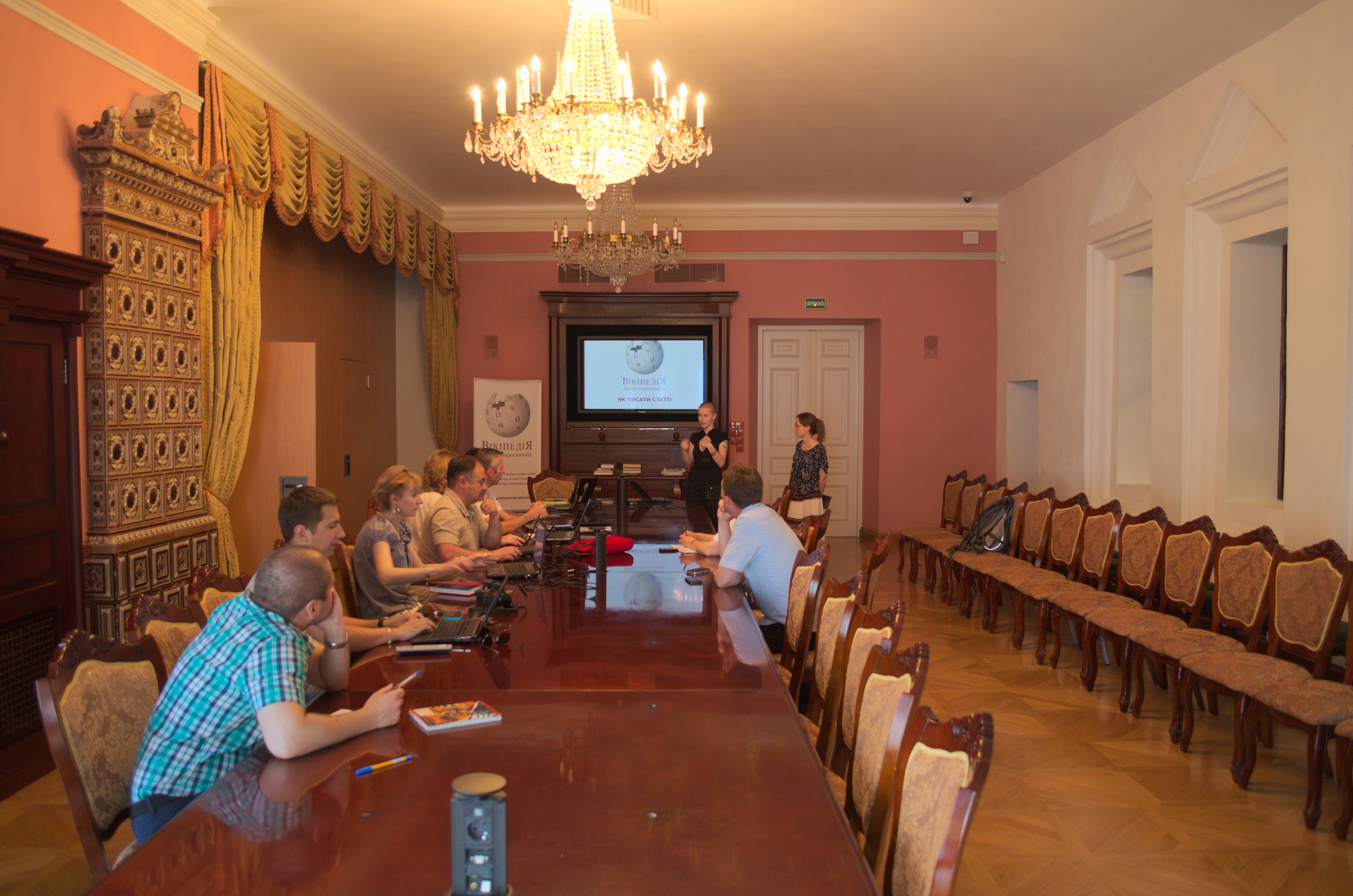 Wikitraining in Saint Sophia Cathedral in Kiev